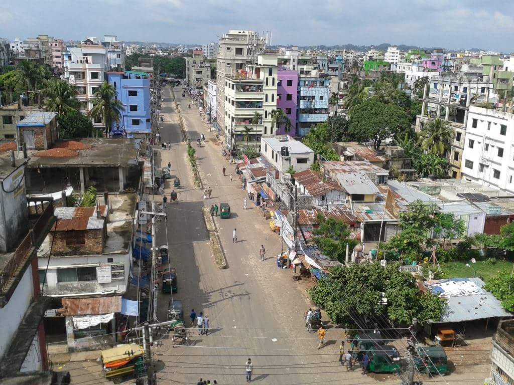 Photo was captured from the top of a building